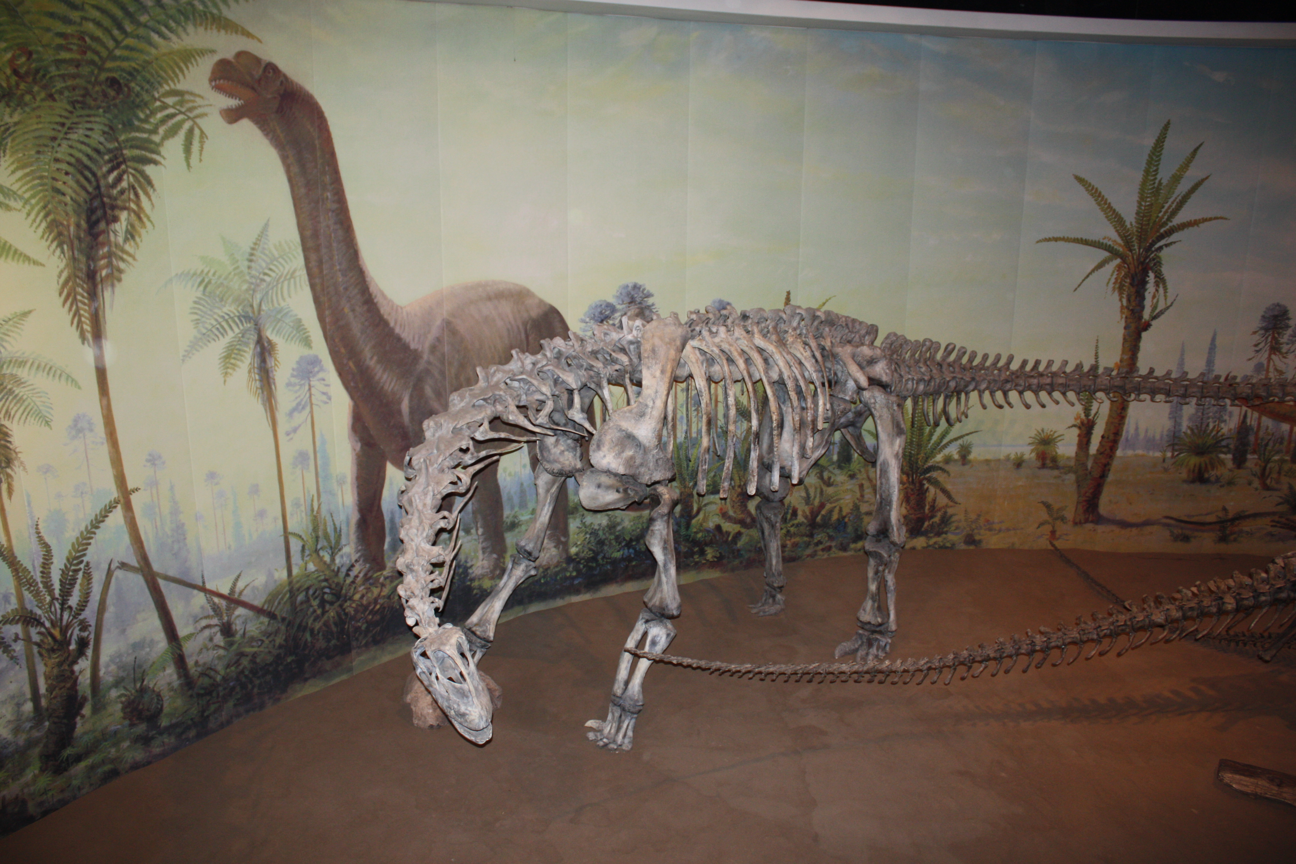 A reconstructed skeleton of the camarasaurid macronarian Camarasaurus, on display in the dinosaur hall of the Royal Tyrrell Museum of Paleontology (RTMP) in Drumheller, Alberta. The mount is of two individuals side-by-side and next to other Morrison Formation dinosaurs, Camptosaurus and Allosaurus. The Camarasaurus species and specimen are not identified in the plaque.